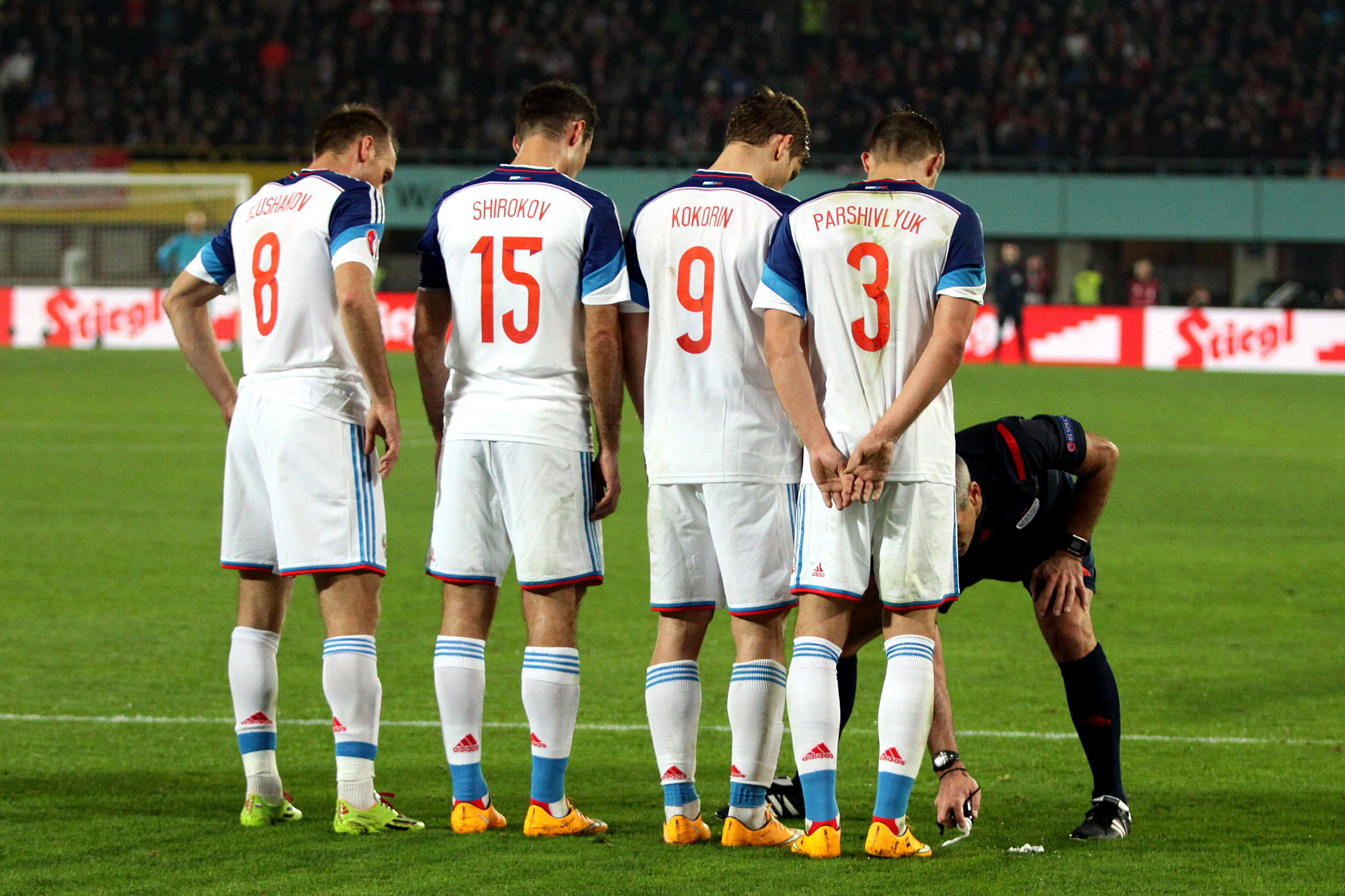 UEFA Euro 2016 qualifying: Austria vs. Russia (1:0 / 0:0) at 2014-11-15 in the Ernst-Happel-Stadion in Vienna. – The photo shows referee Martin Atkinson using the vanishing foam. The Russian player Denis Glushakov, Roman Shirokov, Aleksandr Kokorin and Sergey Parshivlyuk (from left to right) builds a wall.